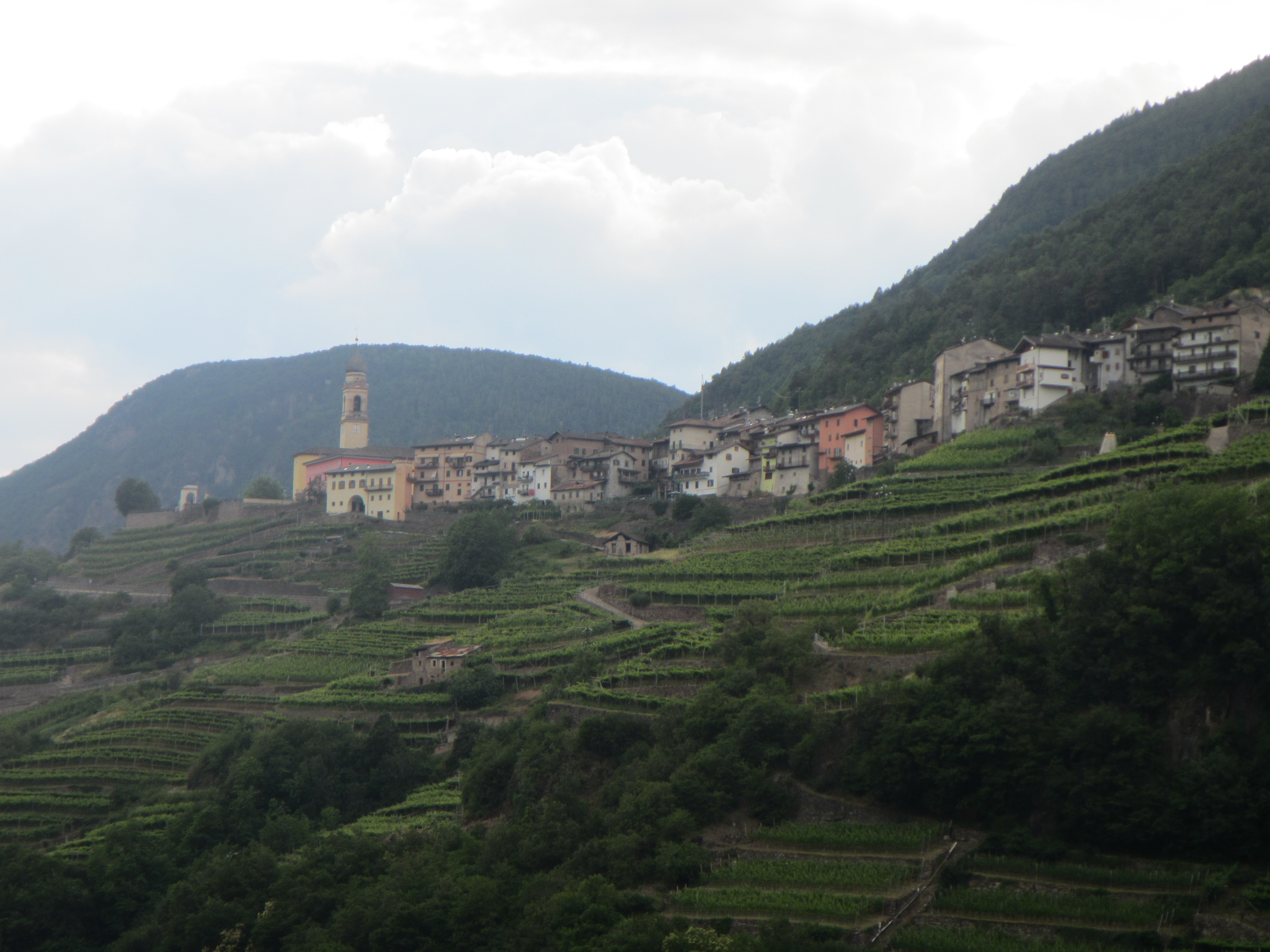 Faver - view from the chapel of Saint Anthony, Piazzo, Segonzano